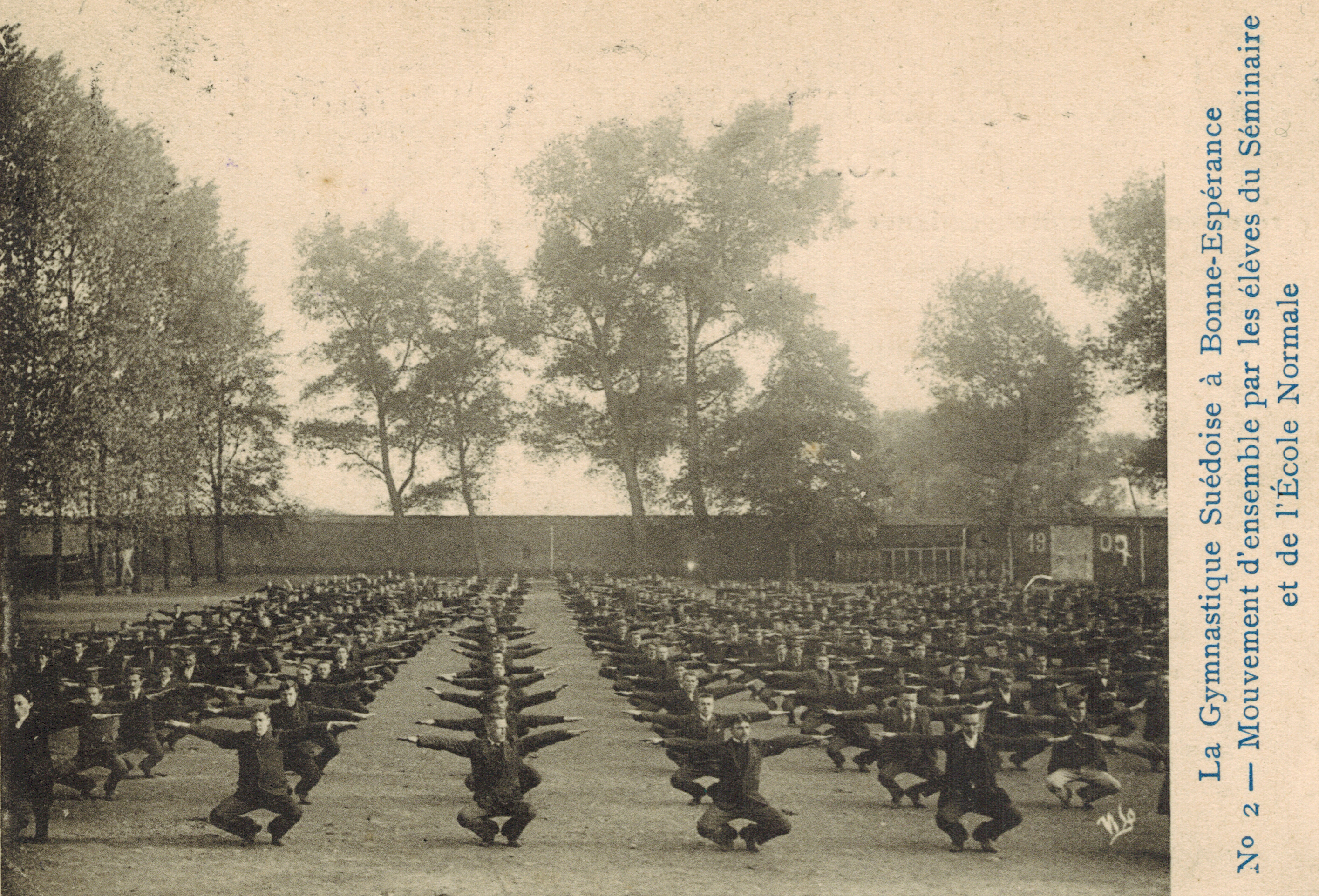 Swedish Gymnastics in Bonne-Espérance No. 2 - Synchronized movement by the students from the Seminary and the Normal School. (Bonne-Espérance Minor Seminary in Vellereille-les-Brayeux, Belgium).